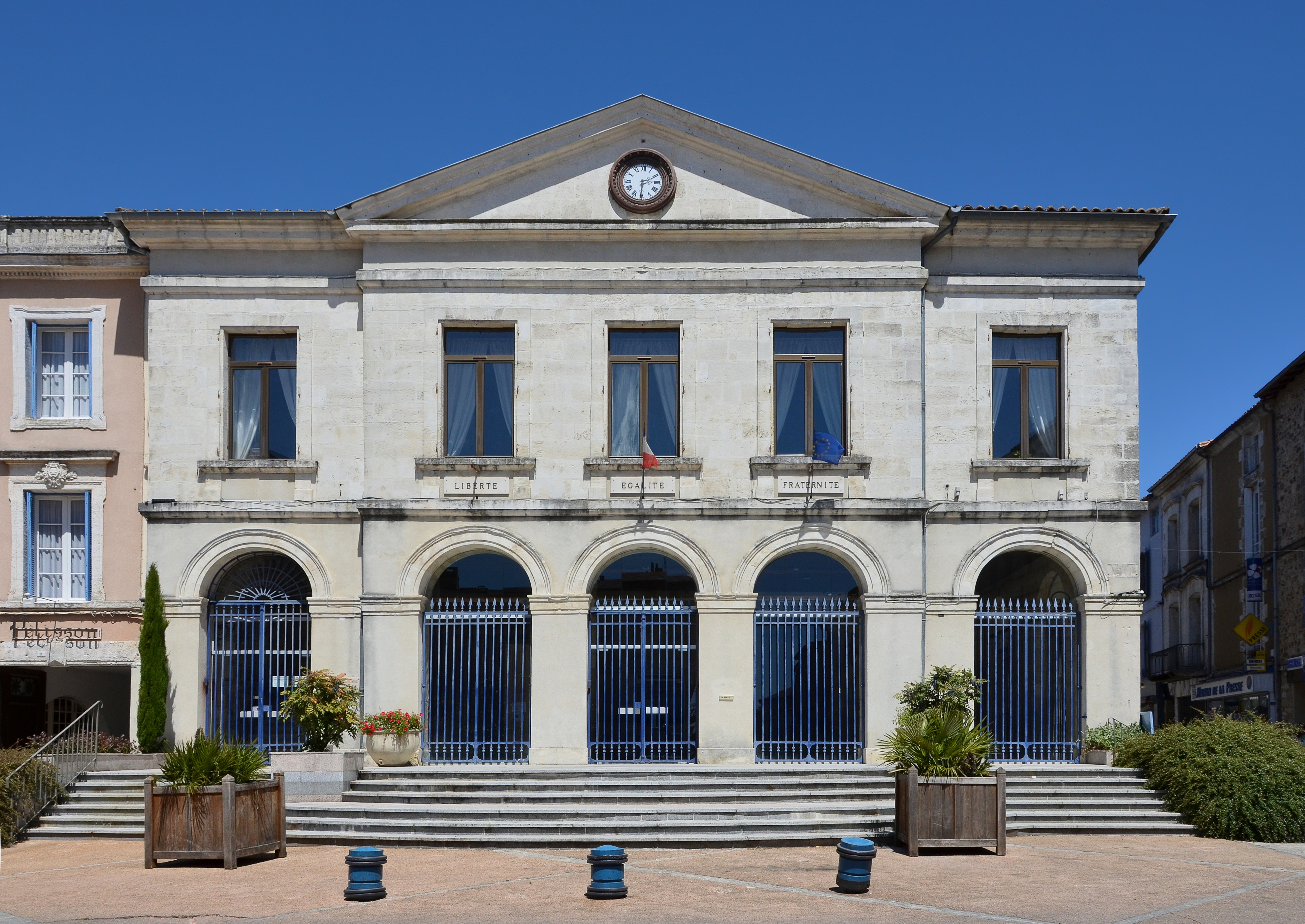 Facade of the city hall, Nontron, Dordogne, France.